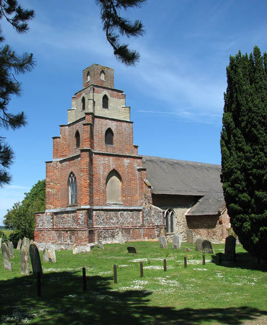 West tower of St Mary's parish church, Burgh St Peter, Norfolk, seen from the southwest